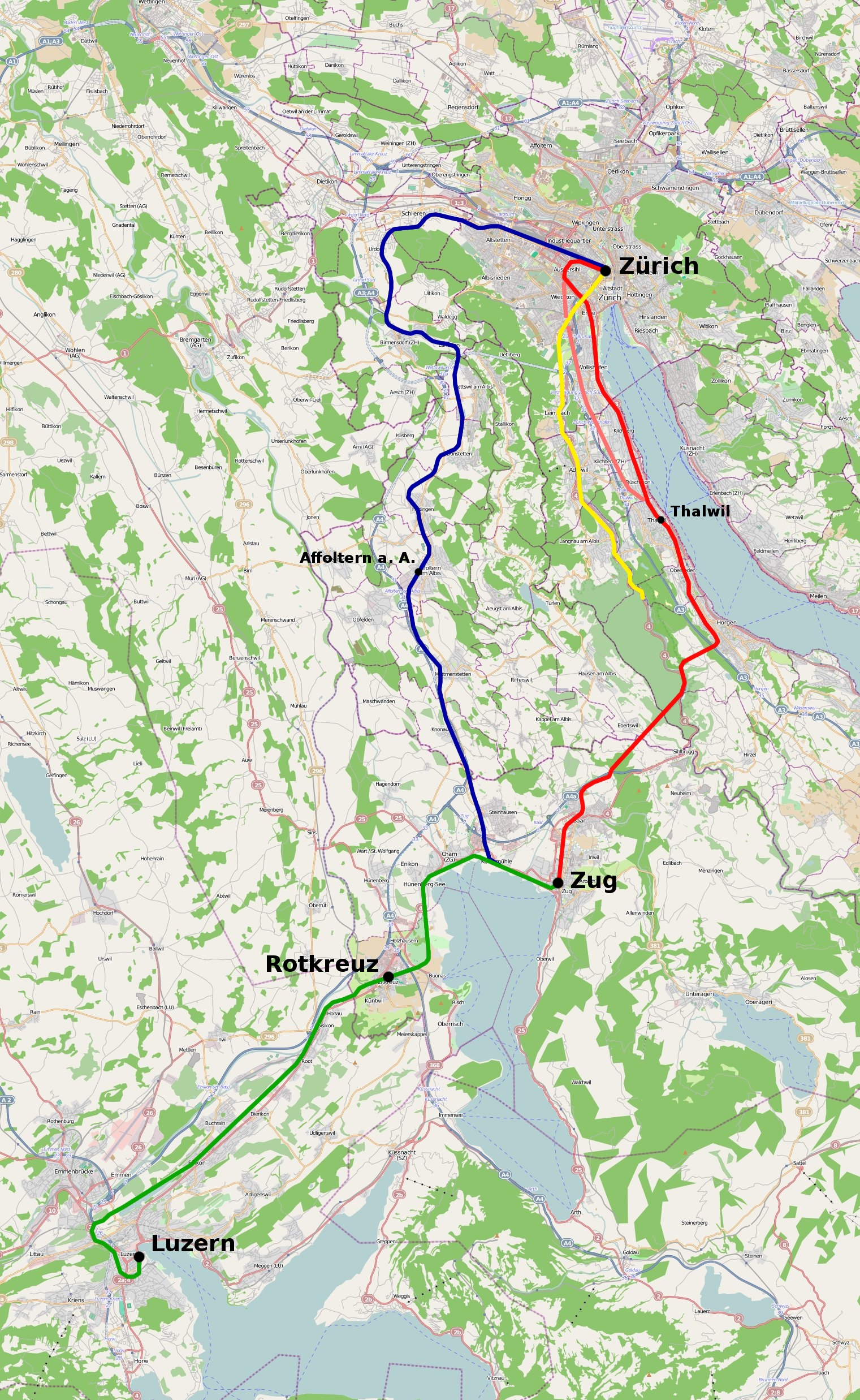 The different railway-lines from Zurich to Lucerne: Zürich - Affoltern a. A. - Zug (Zürich-Zug-Luzern-Bahn) Zürich - Thalwil - Zug (Zürich-Zug-Gotthard-Bahn) Zimmerberg-Basistunnel Sihltalbahn Zug - Rotkreuz - Luzern (Zürich-Zug-Luzern-Bahn)